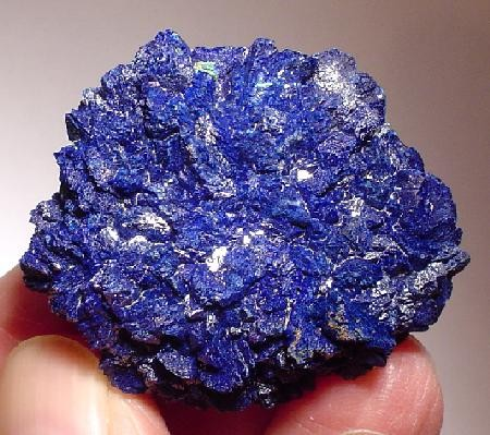 Azurite Locality: Bou Bekker (Bou Becker), Touissit, Touissit District, Oujda-Angad Province, Oriental Region, Morocco (Locality at ) Size: 4.3 x 3.7 x 1.6 cm. A VERY FINE and UNCOMMON azurite rosette from Bou Bekker, Morocco. This is a beautiful, complete all-around and pristine, floater cluster of sharp, highly lustrous, royal-blue azurite crystals. The bit of malachite is a very nice accent to this fine specimen. It compares very favorably with those from Bisbee, Chessy, La Sal or China.